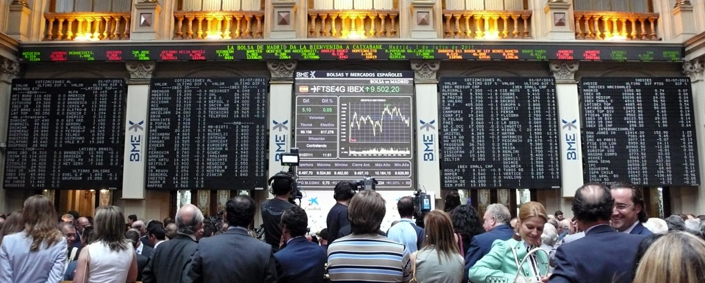 Madrid stock exchange